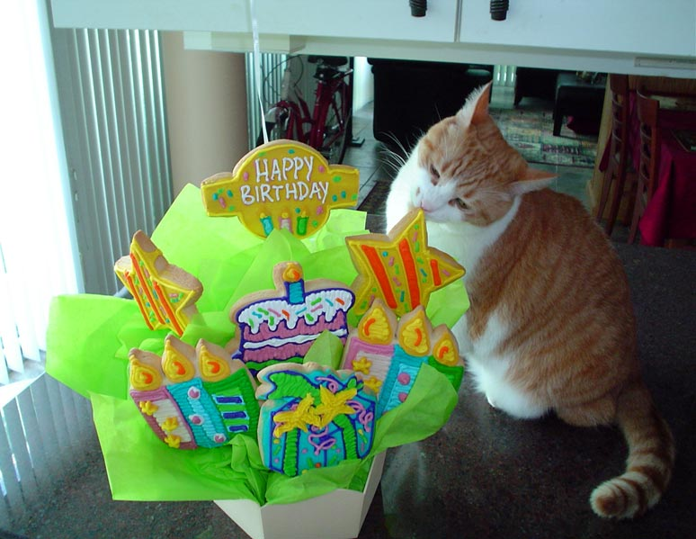 Cookie bouquet sampled by Nikita the cat